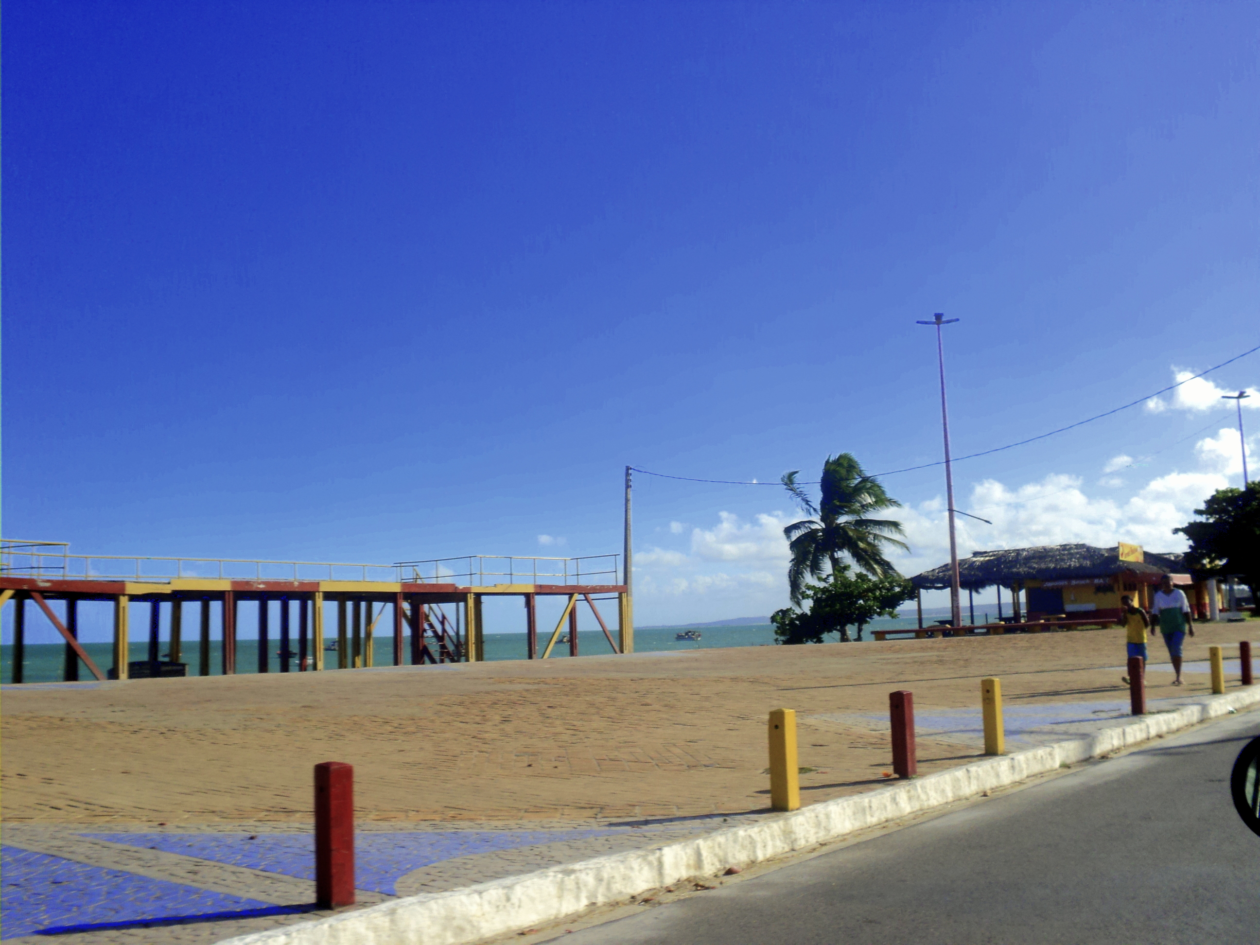 Pontas de Pedras Beach